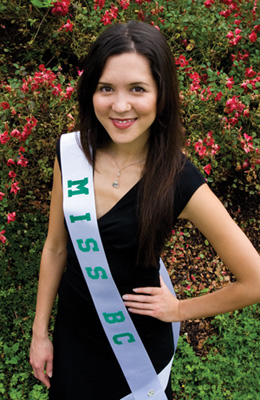 Tara Teng wearing her sash as Miss BC World 2010